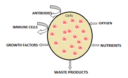 Illustration of the how the semi-permeable membrane works in cell microencapsulation.